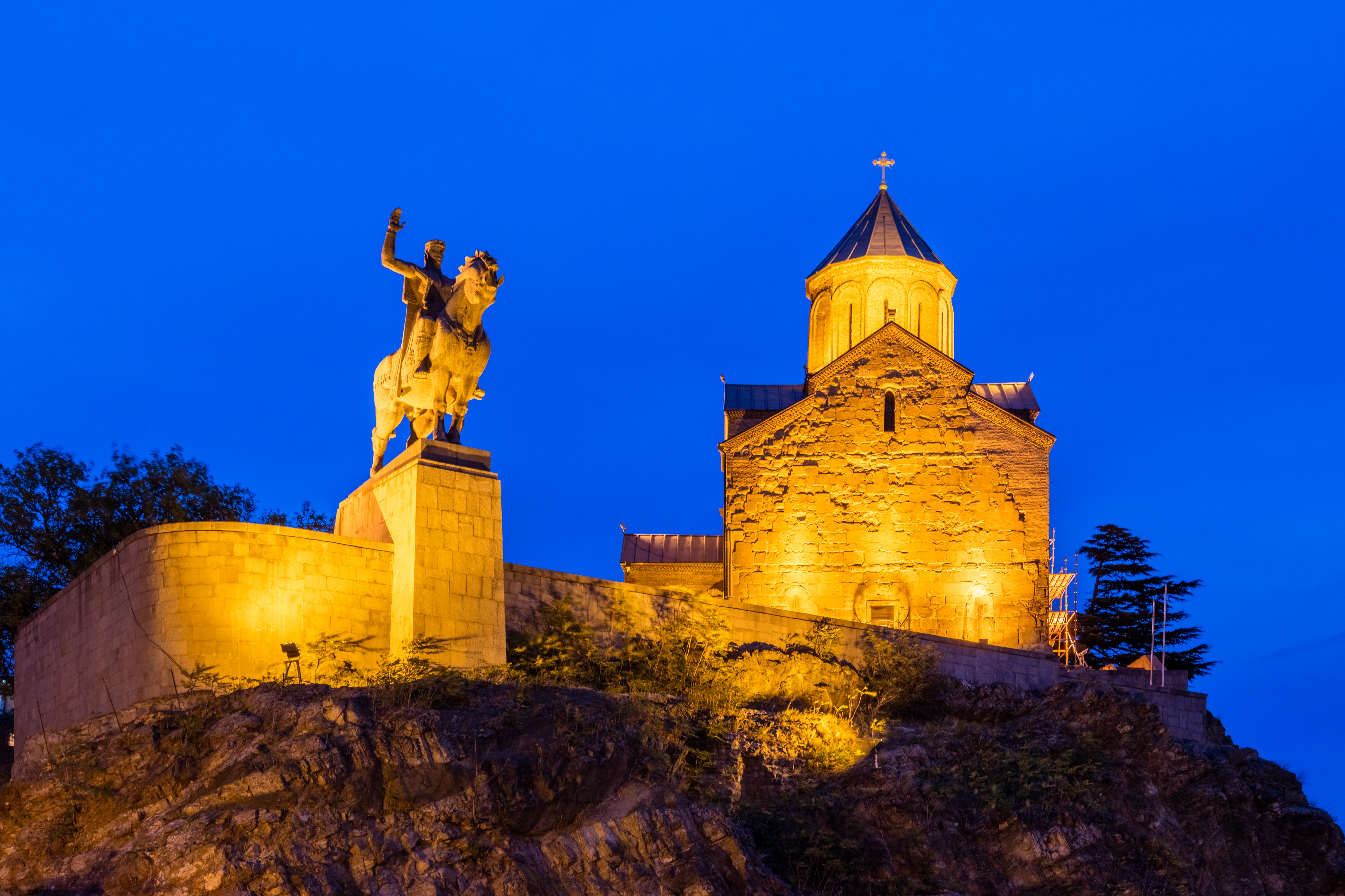 Metekhi Church, Tbilisi, Georgia.